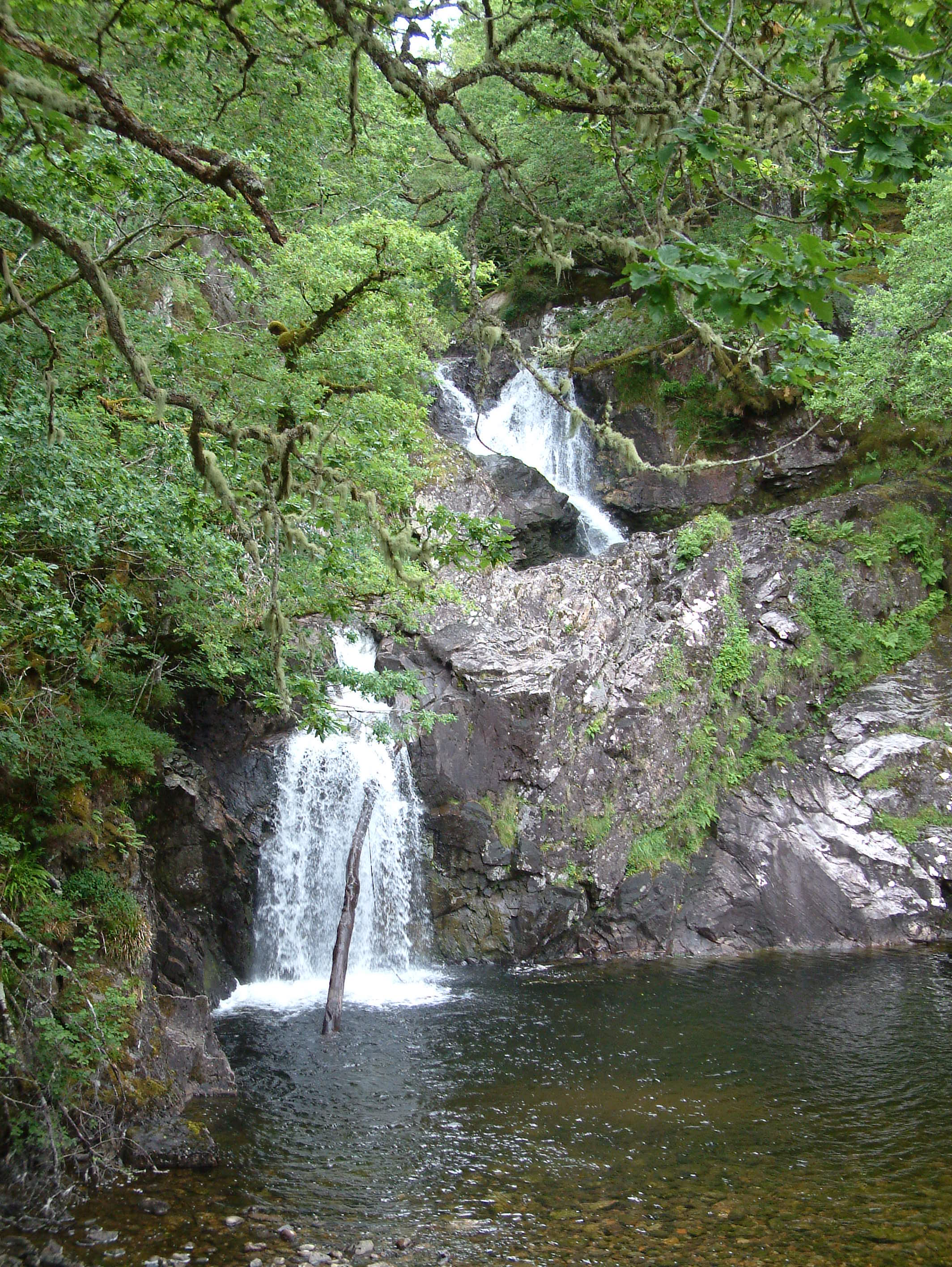 own work, pctr taken in summer 2006